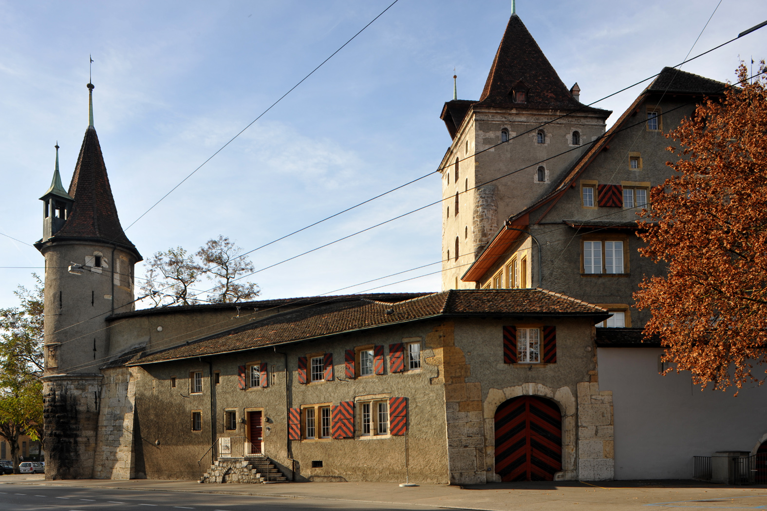 Nidau castle; Berne, Switzerland.